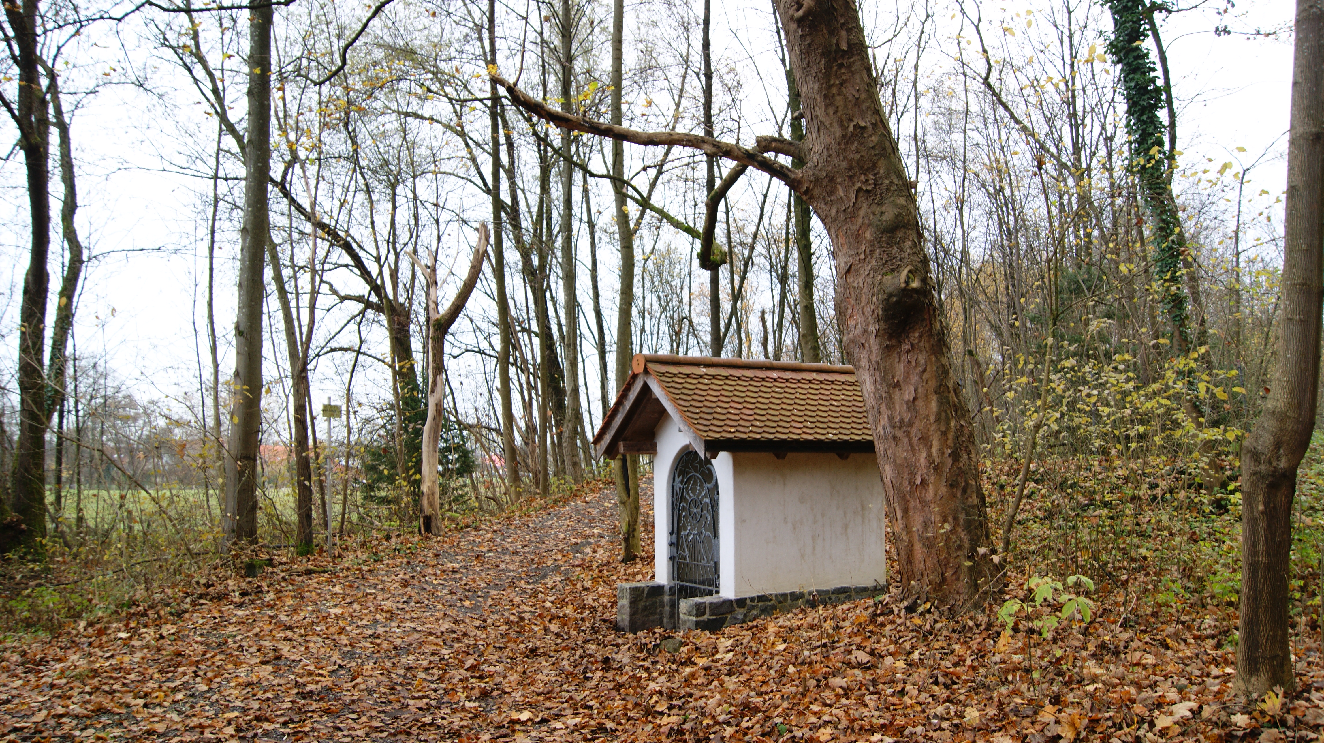 Three-Angel-wayside shrine in Hohenems, Vorarlberg, Austria in the local district of Erlach near the quarry "Spitzenegg" (also Büchele quarry or quarry Erlach).